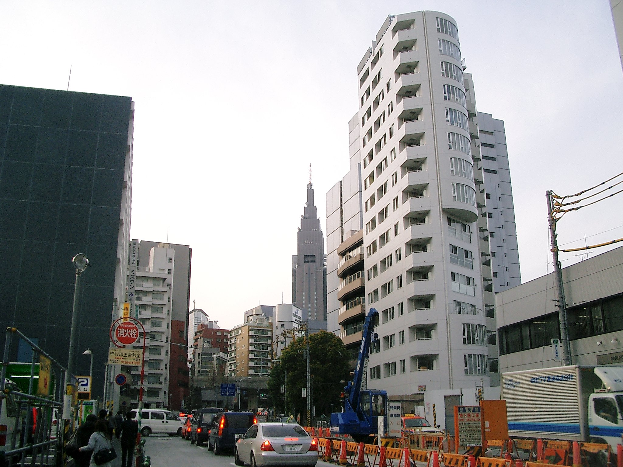 the construction of the Tokyo Metro Line 13 on the Meiji dori 明治通り (東京都) in Sendagaya, Shibuya